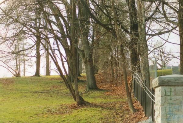 James Pass Arboretum - Salisbury Road